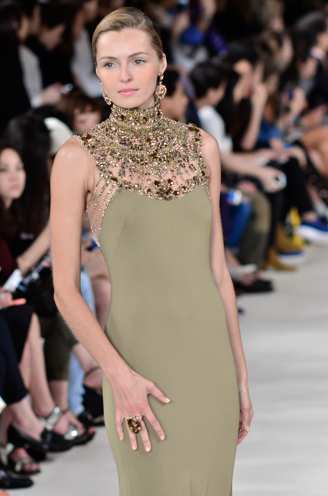 Valentina Zelyaeva walking the Ralph Lauren Spring/Summer 2015 fashion show.